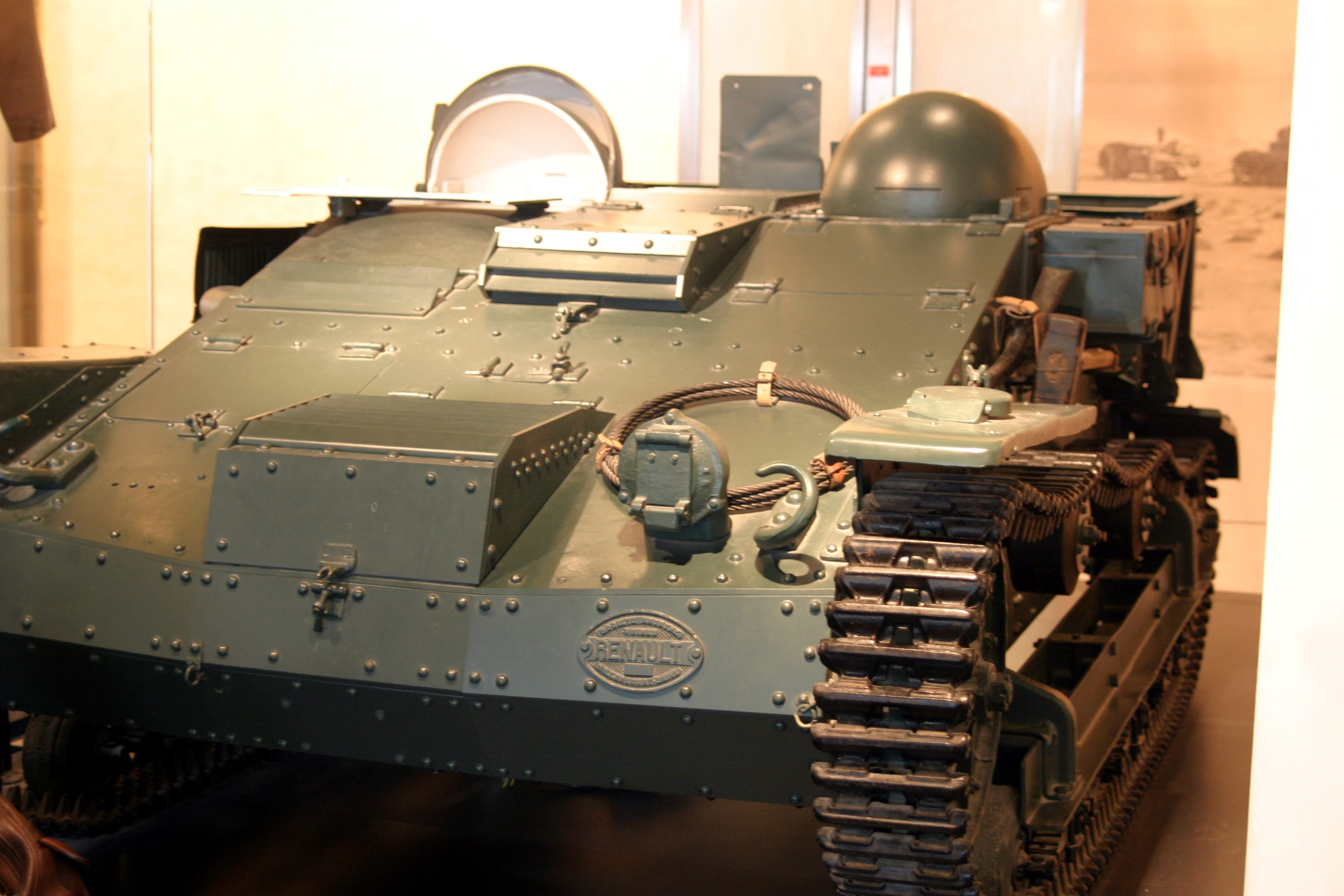 This image was taken at the Musée de l'Armée, Paris.